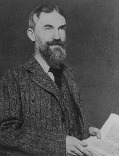 Anglo-Irish playwright George Bernard Shaw